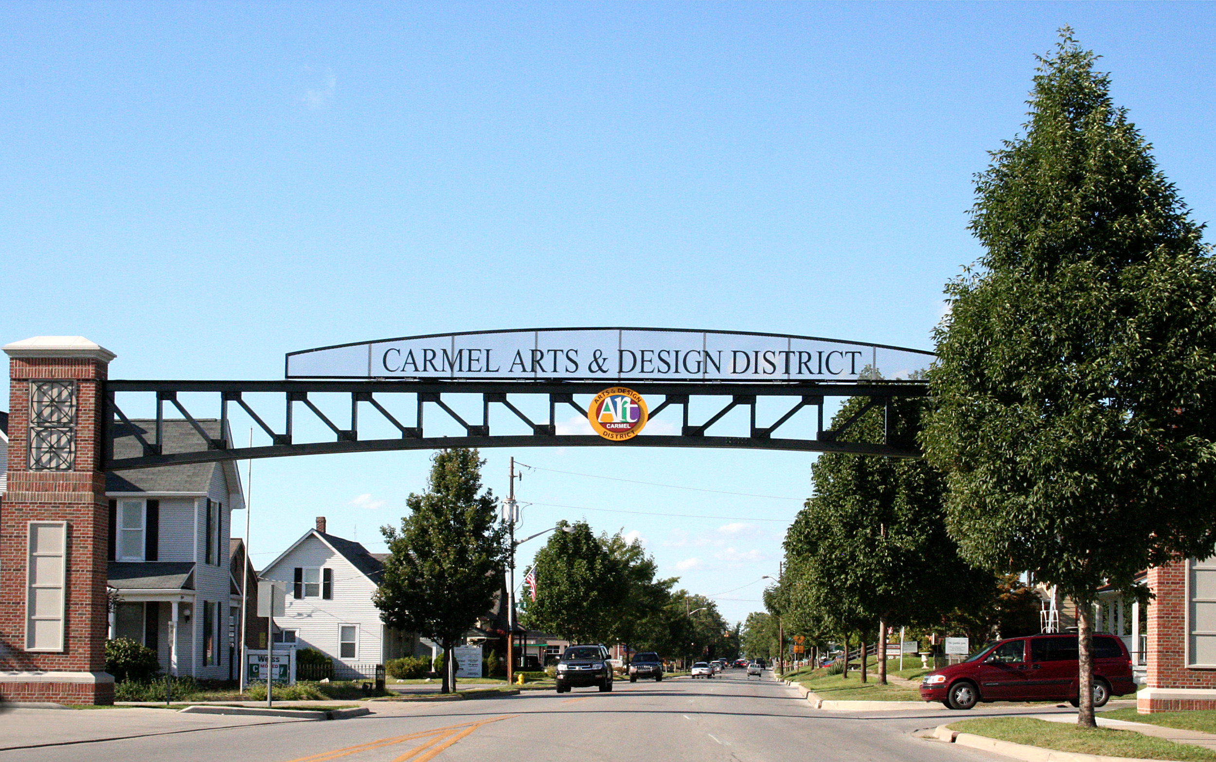 Carmel, Indiana art and design district. Photo shot by Derek Jensen (Tysto), 2005-September-03